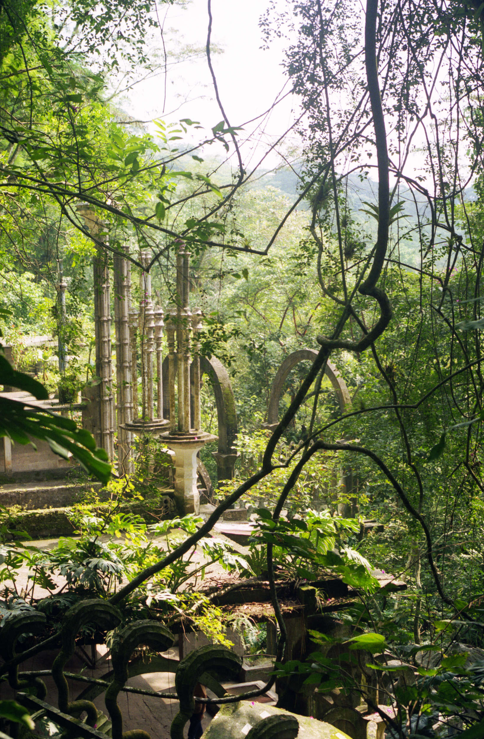 Pillars among the ruins of Las Pozas, built by Edward James, near Xilitla, Mexico